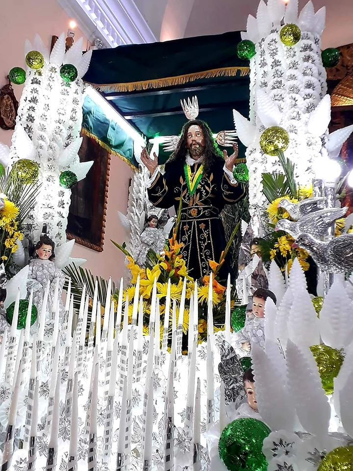 Senor Huerto Ayacucho2